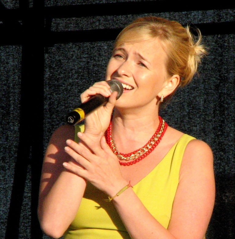 Hanna-Liina Võsa performing in Tallinn's Maritime Days